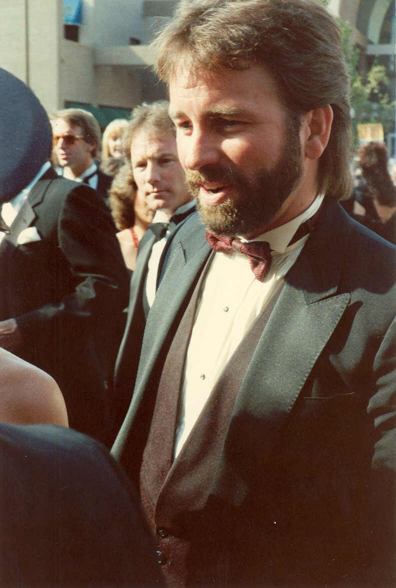 John Ritter at the 40th Emmy Awards, August 1988